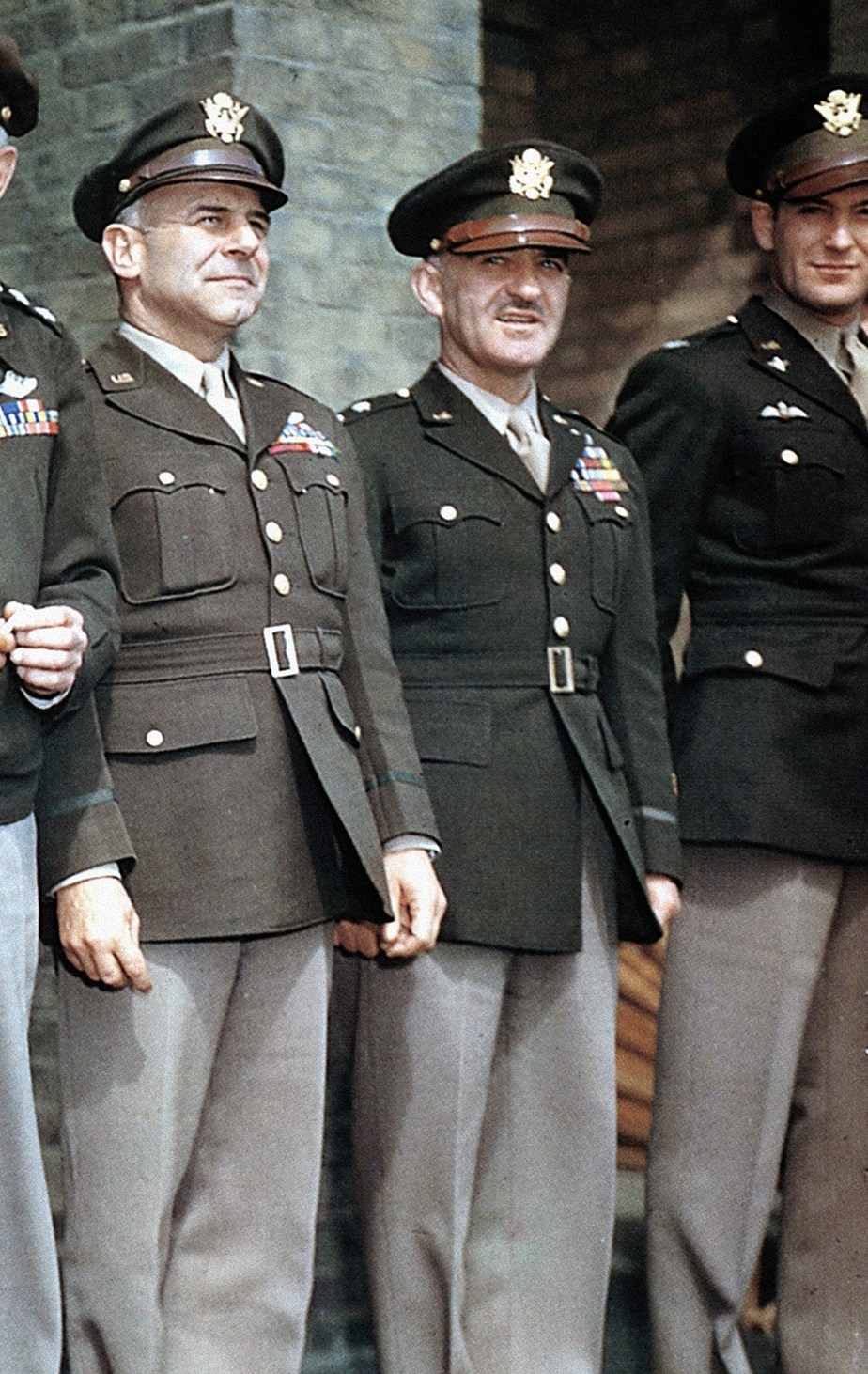 U.S. Army World War II pinks and greens officer uniform